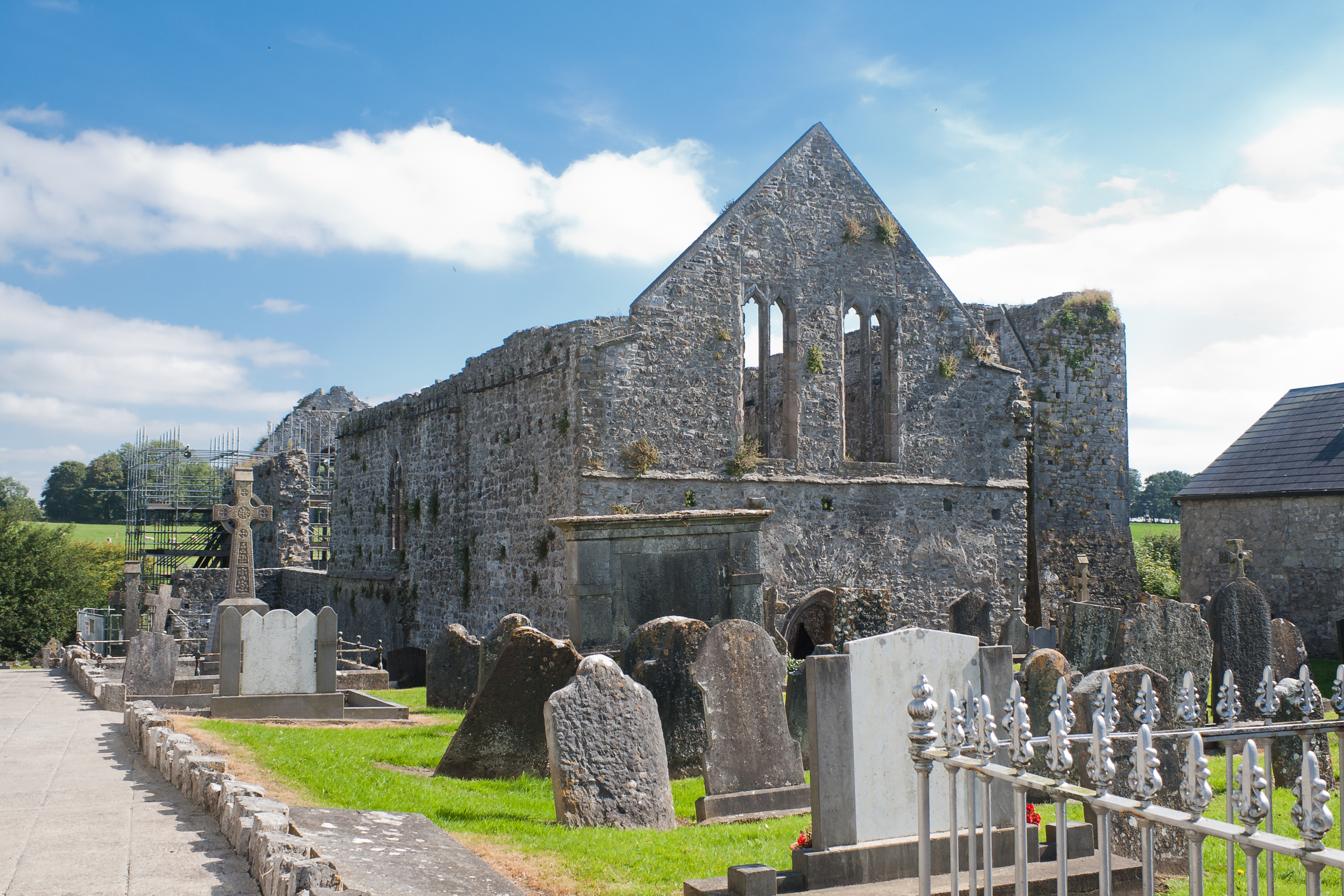 Buttevant Friary, looking south-east.